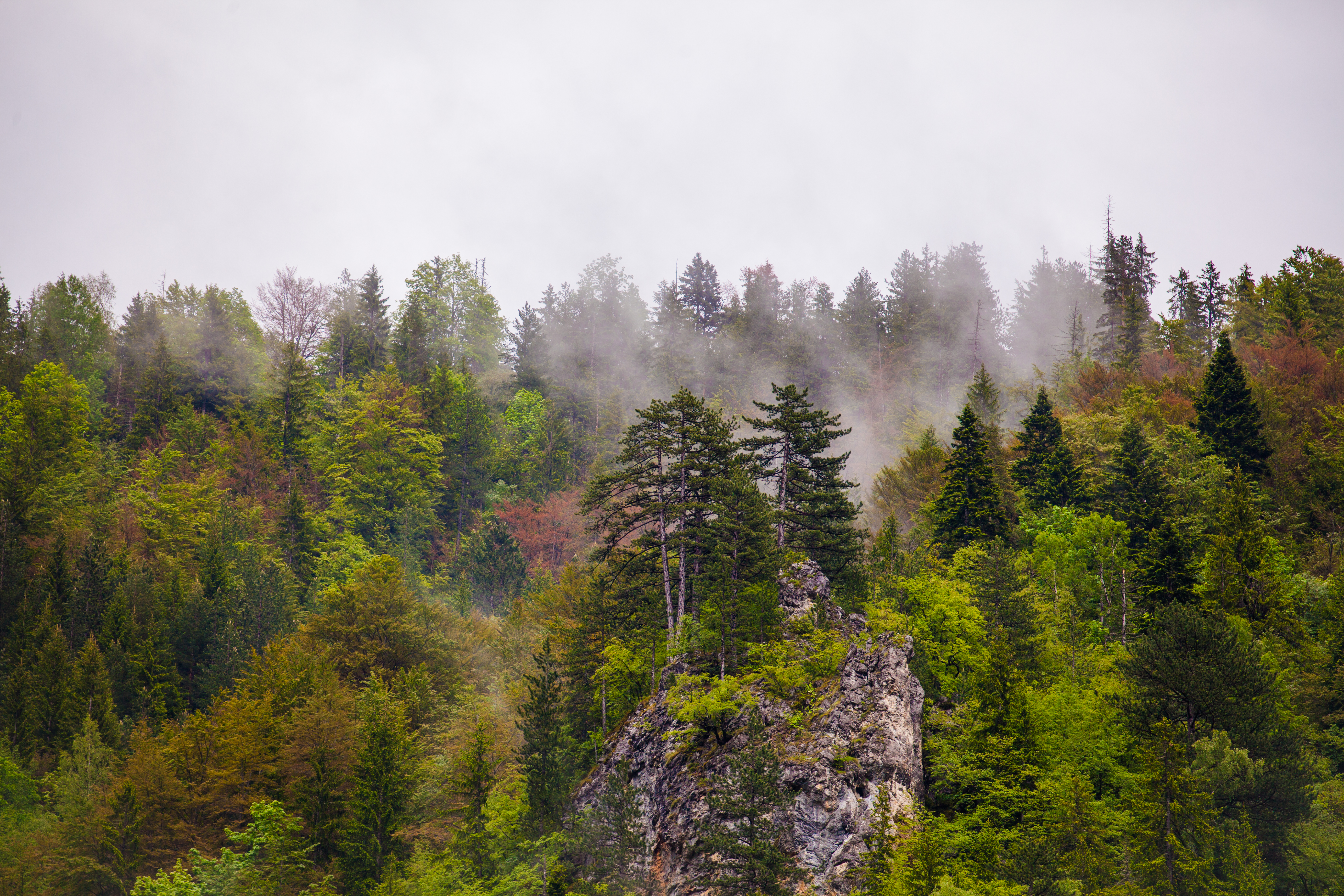 The special moment after rainfall in Rugova mountainsShqip: Moment i veqant pas reshjeve te shiut ne Rugove perkatsisht tek Reka e Allages.